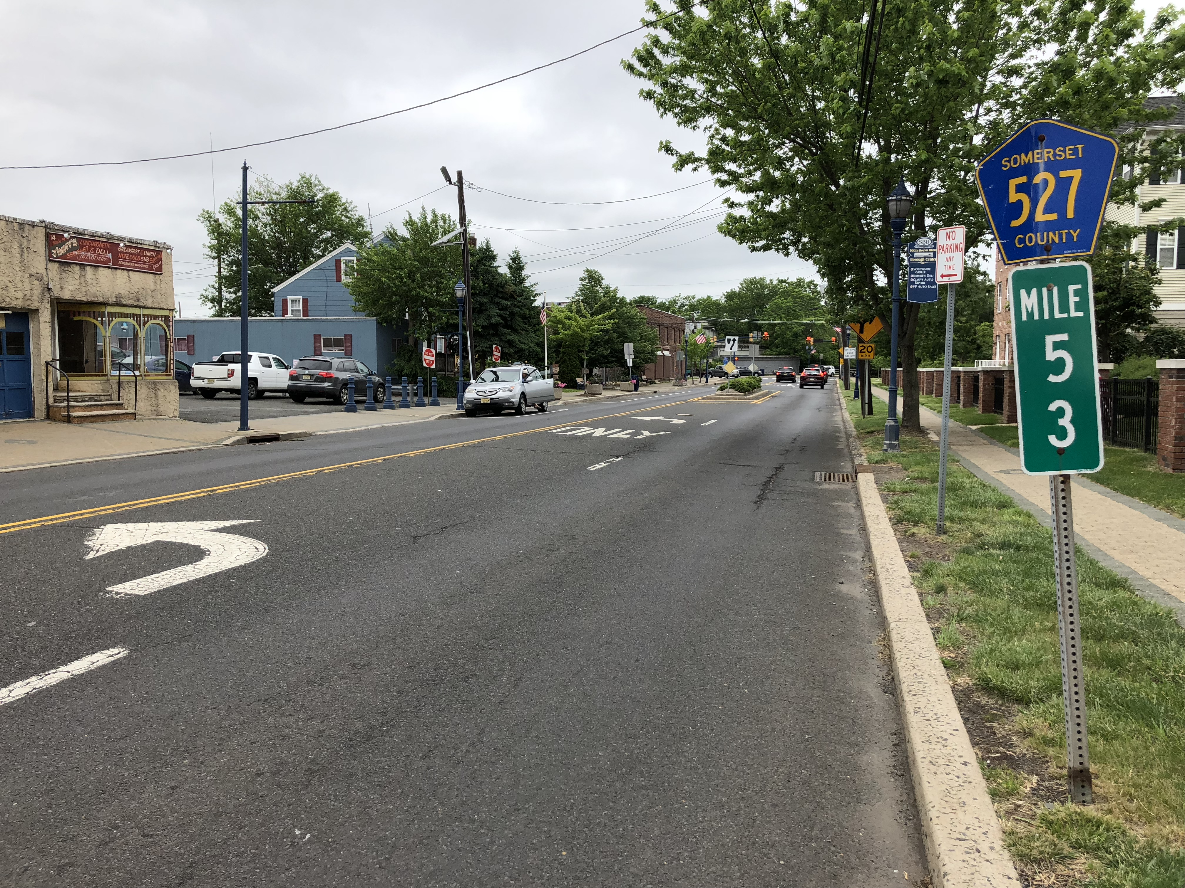 View north along Somerset County Route 527 (Main Street) between Clinton Street and Elm Street in South Bound Brook, Somerset County, New Jersey